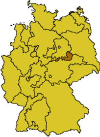 Evangelical Church of Anhalt